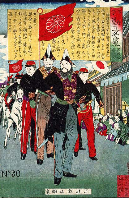 Nishiki-e painting (a kind of Ukiyo-e in Meiji period) of Kuroda Kiyotaka(probably the right person) , with Inoue Kaoru behind him.